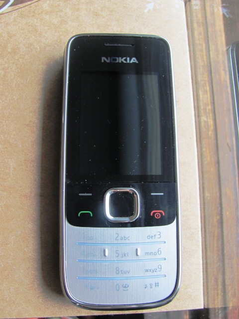 Nokia 2730 classic mobile phone